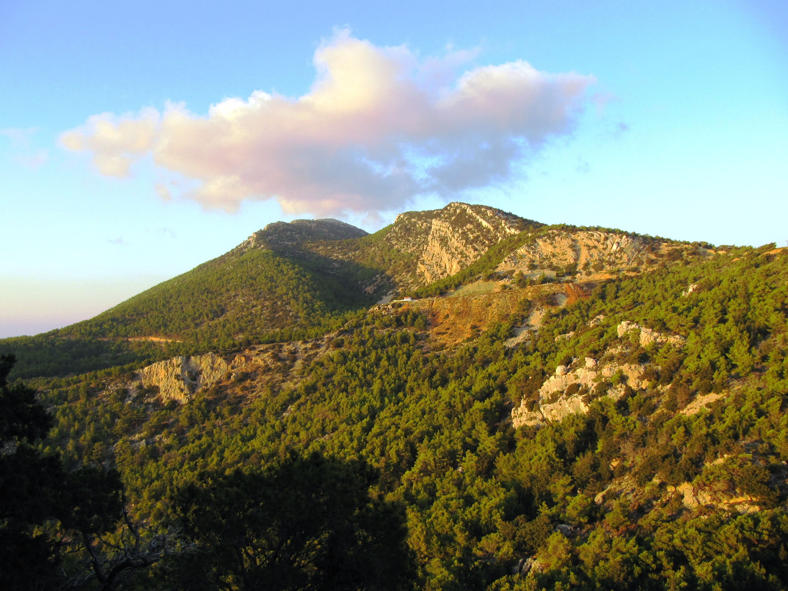 This is looking east from the Monolithos Castle, Rhodes